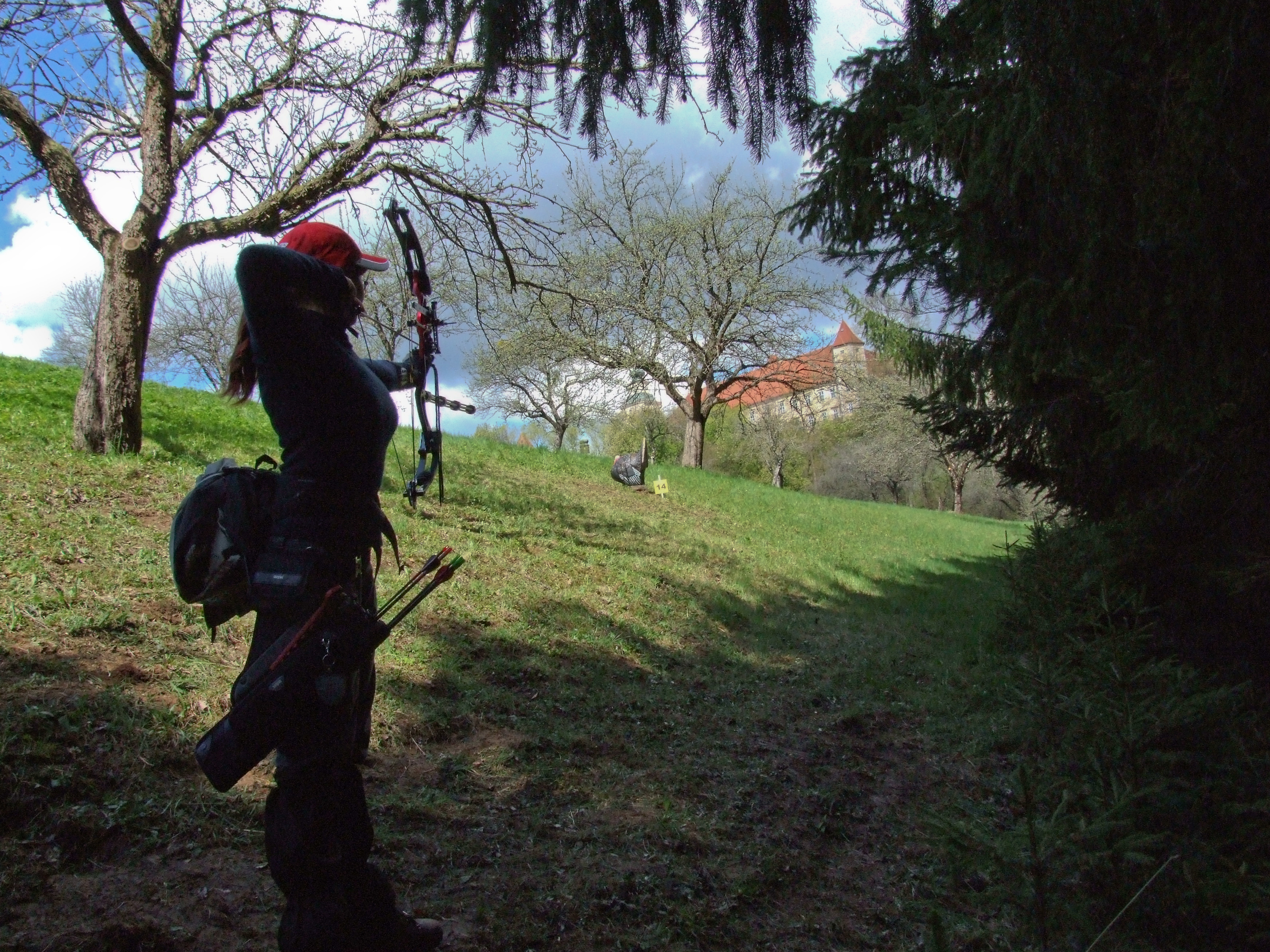 Freestyle compound bow archer shooting turkey on 3D archery competition. Competition was 2008 European Cup.